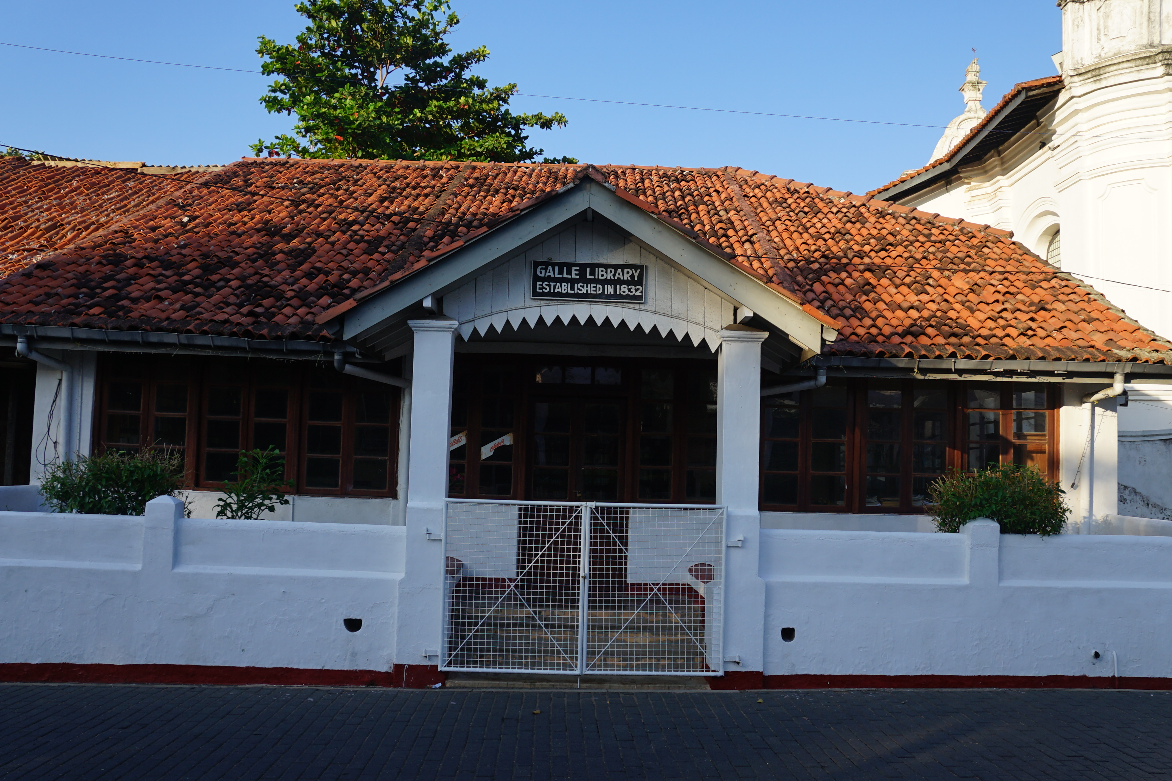 Galle Library, established in 1832